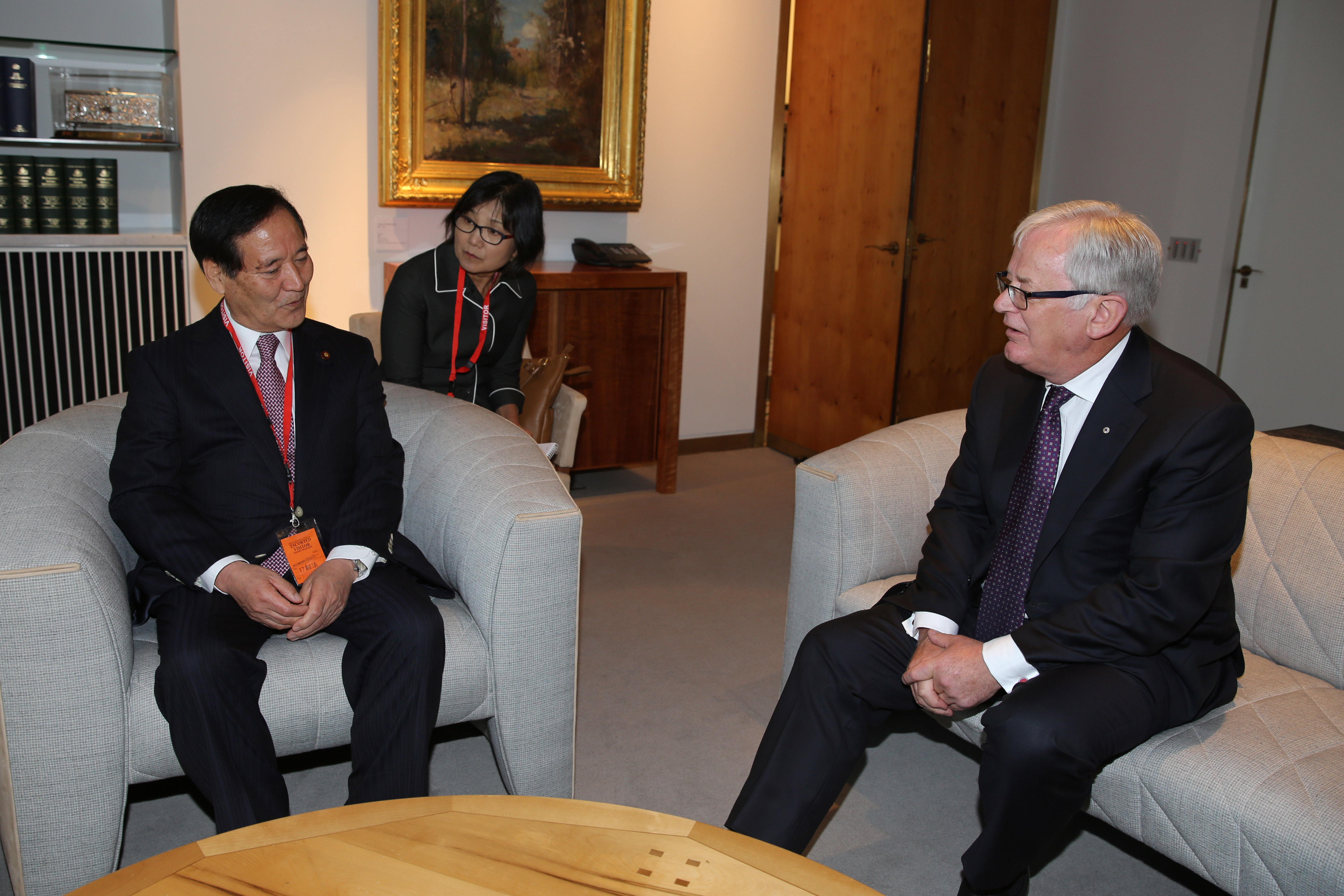 Kōya Nishikawa, Member of the House of Representatives, met Andrew Robb, Minister for Trade and Investment, on March 17, 2014.